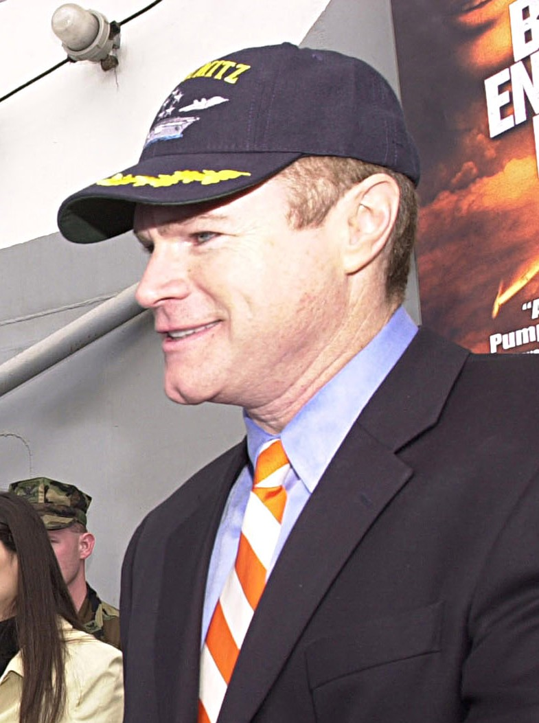 The image detail of American actor, David Keith (b 1954).